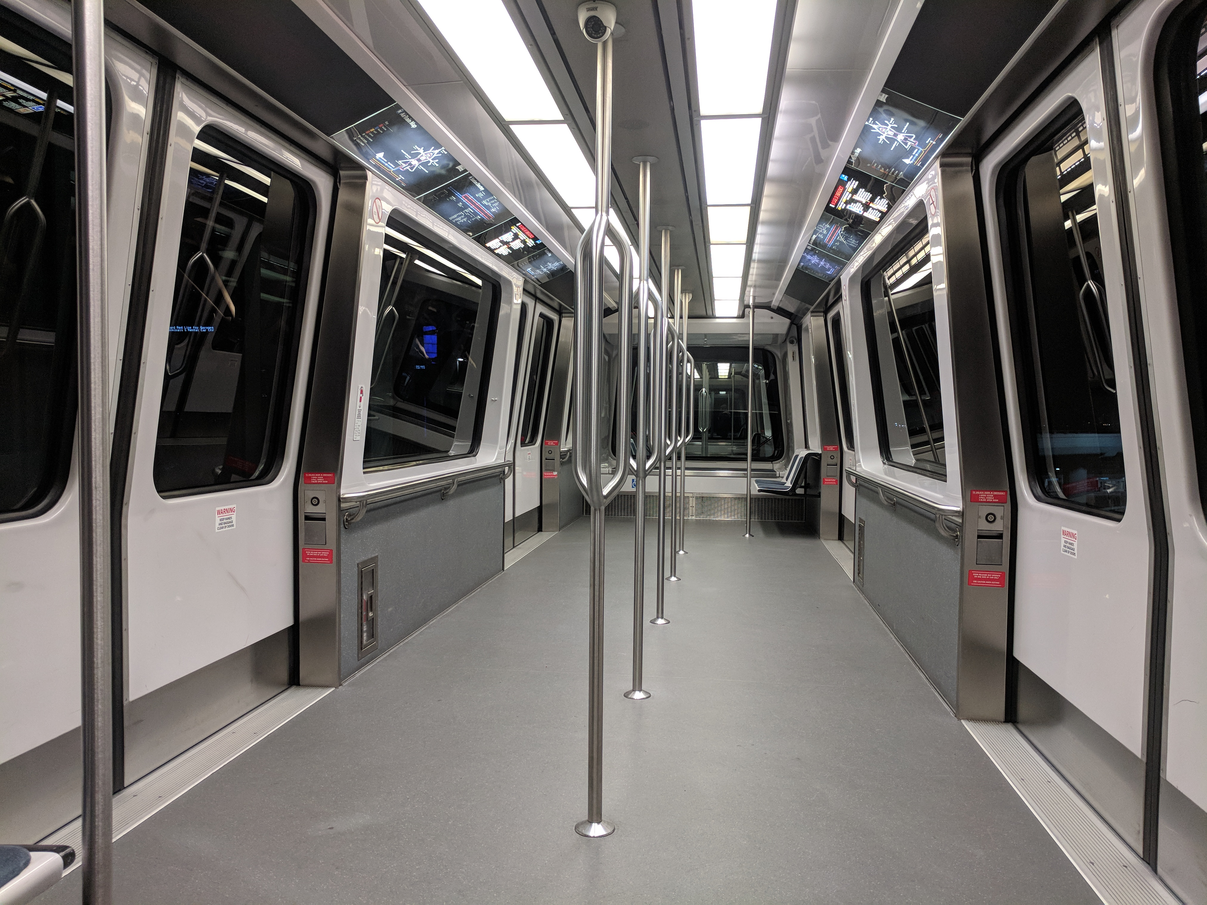 SFO AirTrain, automated people mover. Terminal 2